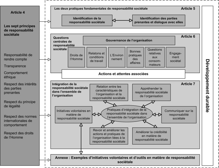 Panorama of ISO 26000